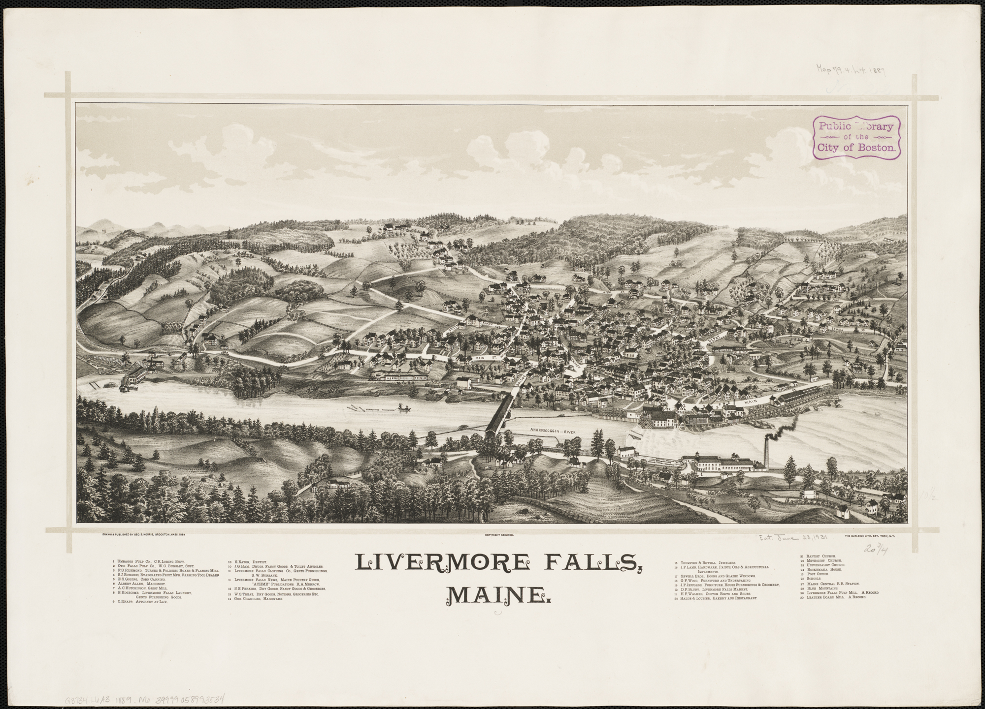 Zoom into this map at . Author: Norris, George E. Publisher: Geo. E. Norris Date: 1889 Location: Livermore Falls (Me.) Scale: Not drawn to scale. Call Number: G3734.L6A3 1889.N6